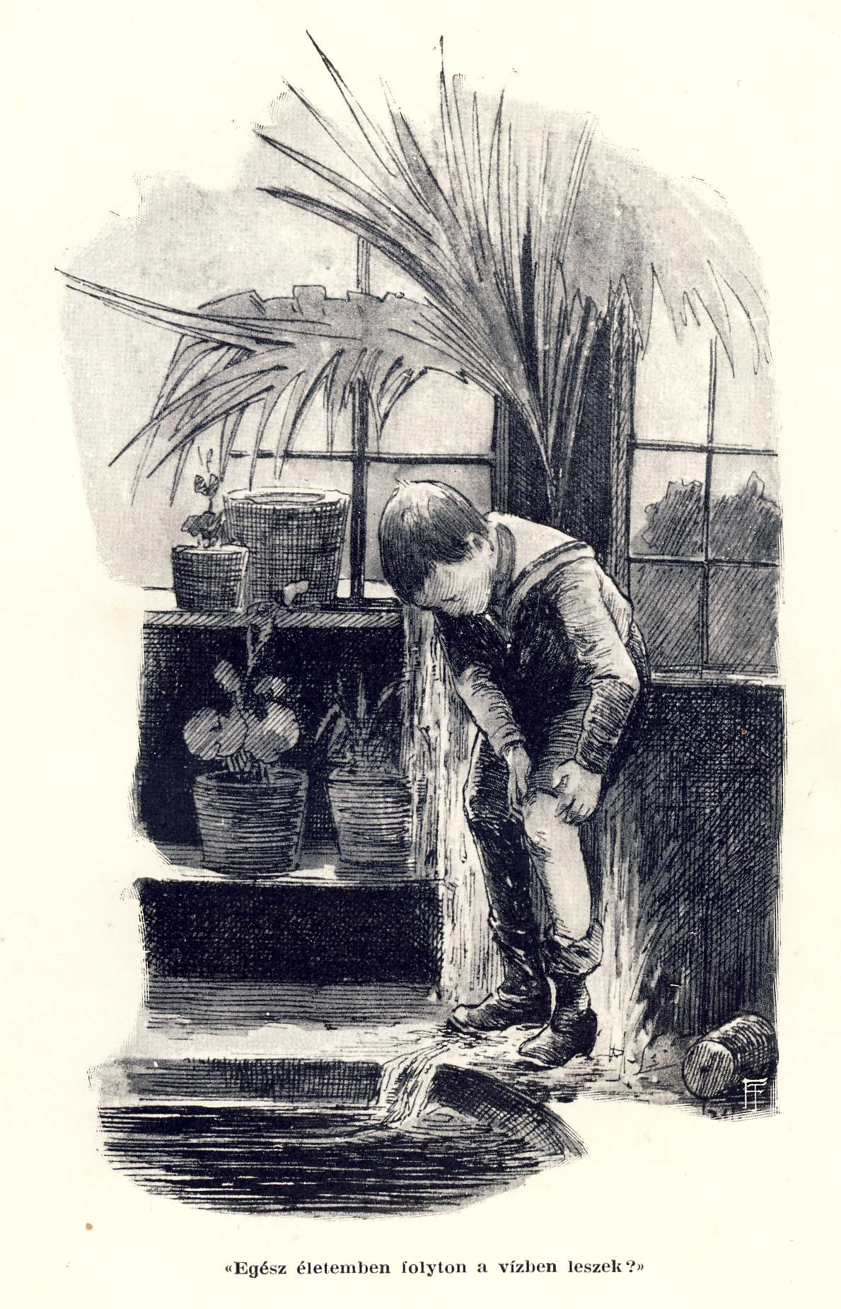 Ferenc Molnár: Pál street boys - The illustration of the first expense, 1907. Hungary, Budapest, Nr. 03.